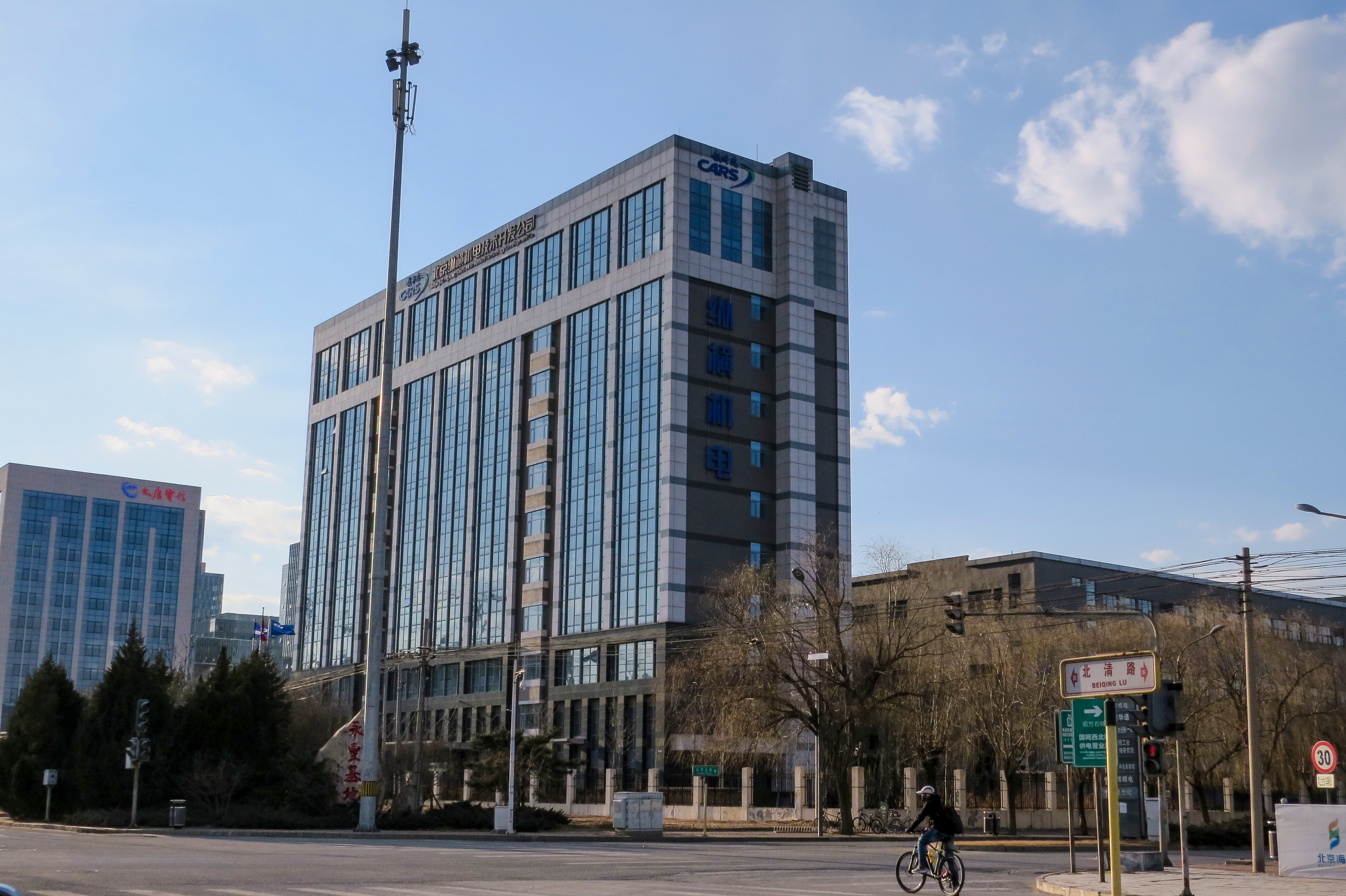 Right in Yongfeng Base.